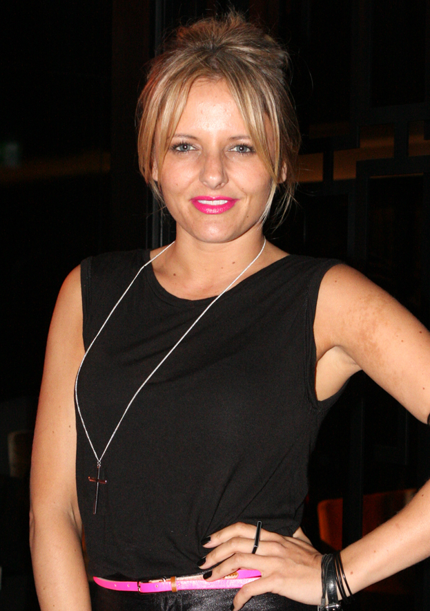 Zoe Badwi attends The Star Turns In On Launch Party in Sydney, Australia, May 2012.